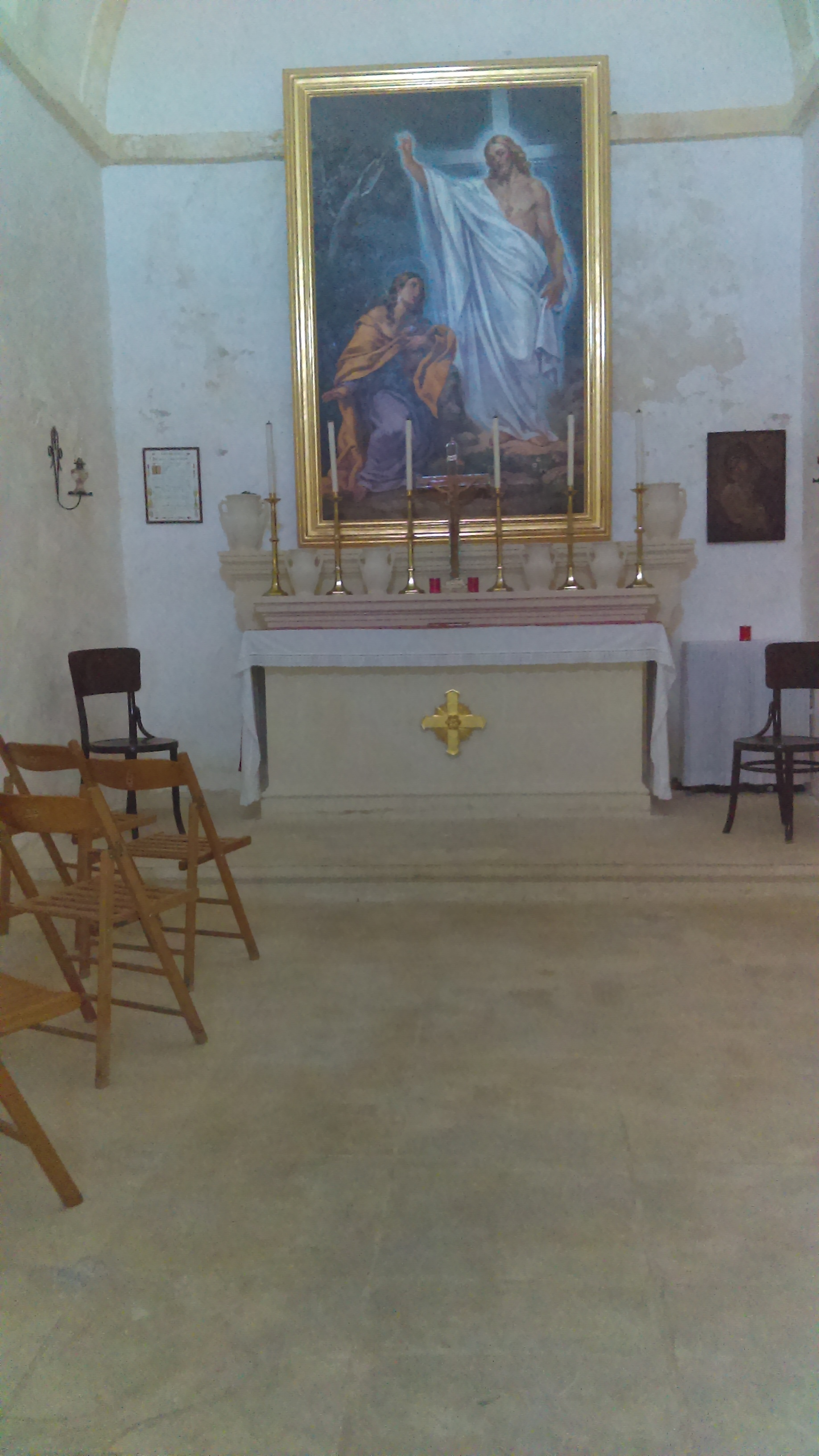 This media is about Maltese cultural property with inventory number 02308.